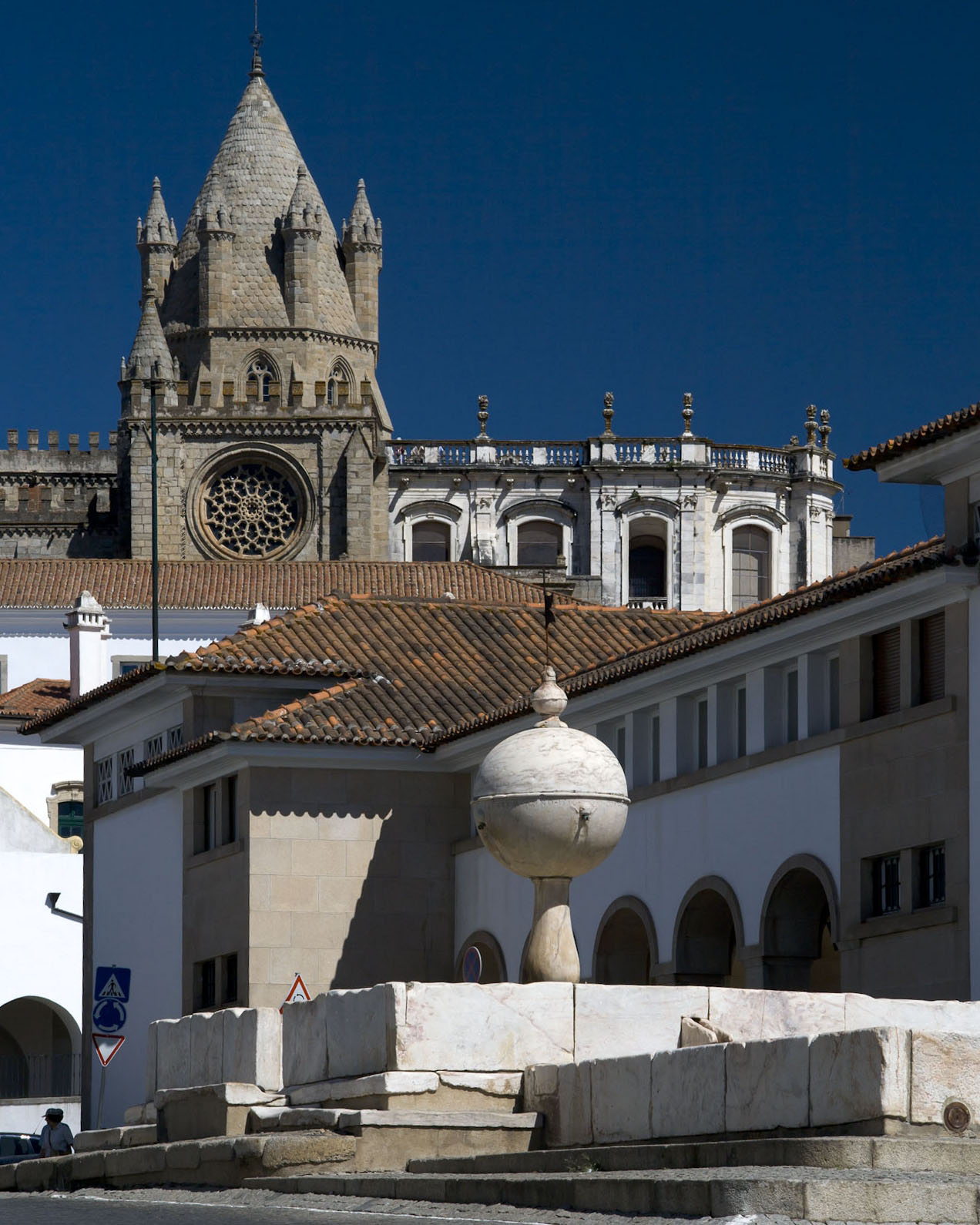 Evora Cathedral and fountain in Largo das Portas de Moura